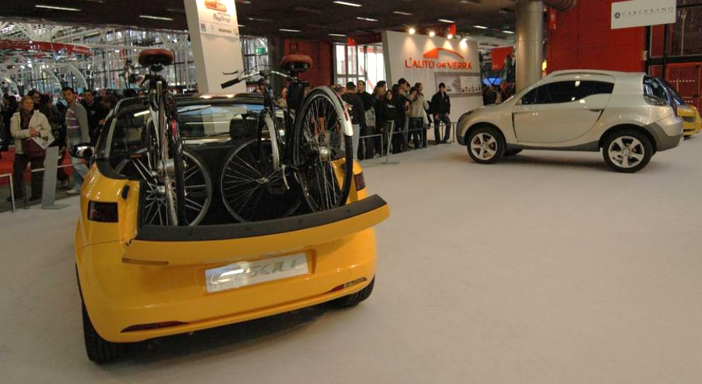 Fioravanti concept vehicles (in yellow: Fioravanti Skill)